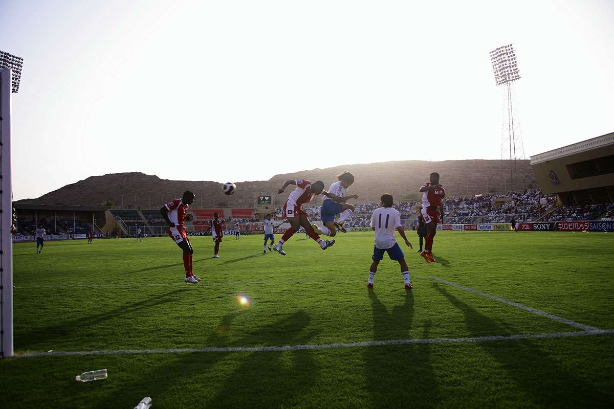 JUNE 7, 2008 - Football : 2010 FIFA World Cup Qualifiers Round 3 match between Oman and Japan at the Royal Oman Police Stadium on June 7, 2008 in Muscat, Oman. (Photo by Tsutomu Takasu)